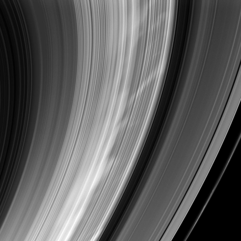 As Cassini sped around Saturn, the spacecraft turned to snap this image of bright spokes giving chase around the B ring.